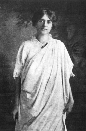 Image of Sister Christine. Sister Christine travelled to India in 1902 and started to work in India as a teacher and social worker. This image was taken and circulated at that time.